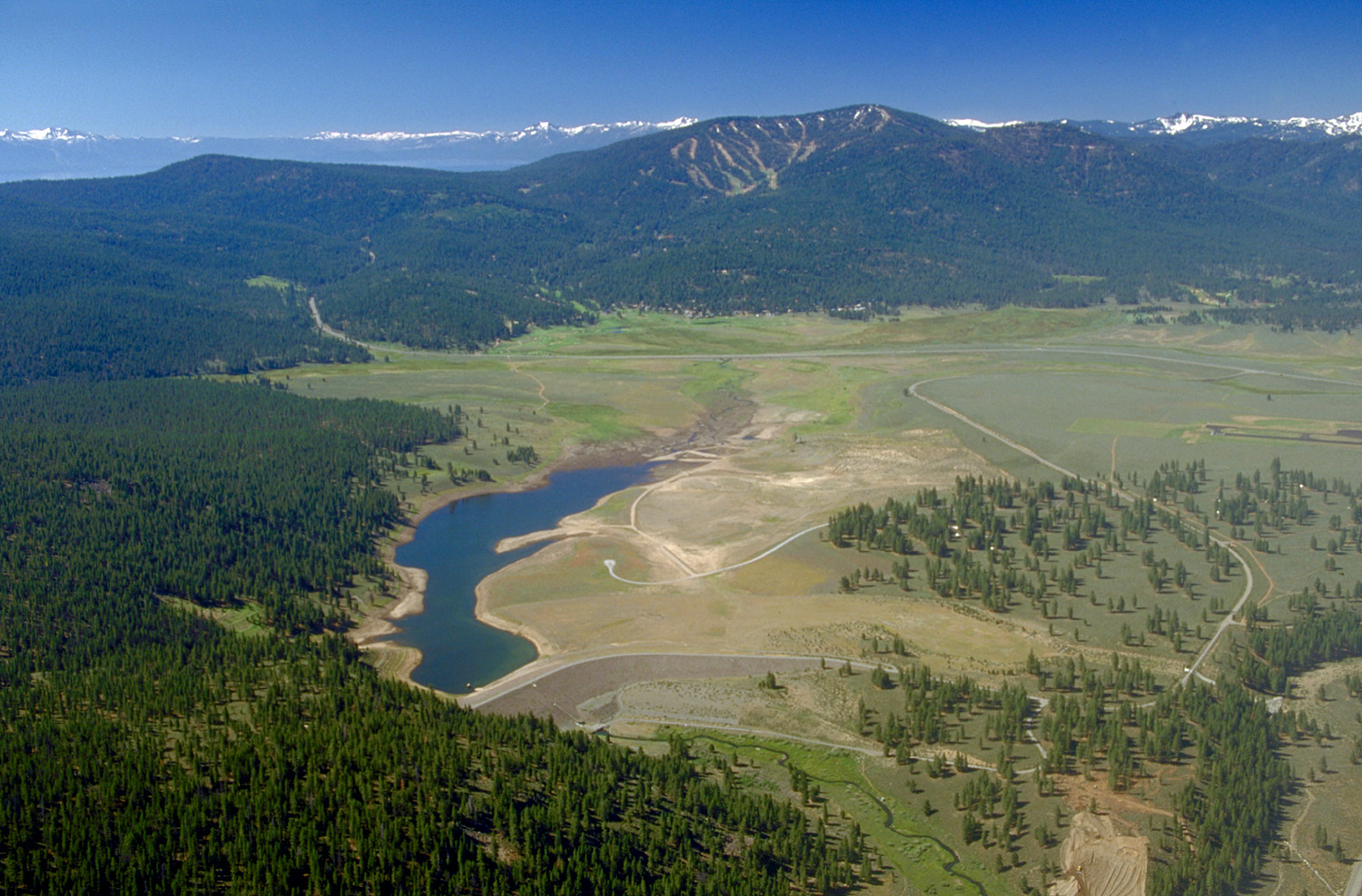 Aerial view of Martis Creek Lake and Dam in Nevada and Placer Counties, California, USA. The dam is located in Nevada County, approximately 5.5 miles (9 km) east of Truckee. The lake, when full, extends south along Martis Creek into Placer County. The lake lies next to the Truckee-Tahoe Airport, whose runway can be seen at far right in the picture. This photograph appears to have been taken in the summer when the water level was quite low. California State Route 267, also known as North Shore Road, runs across the picture in the distance at the base of the hills. View is to the south.